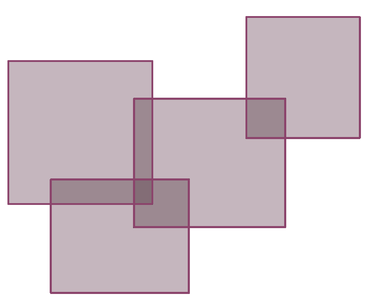 Made by myself with matlab.